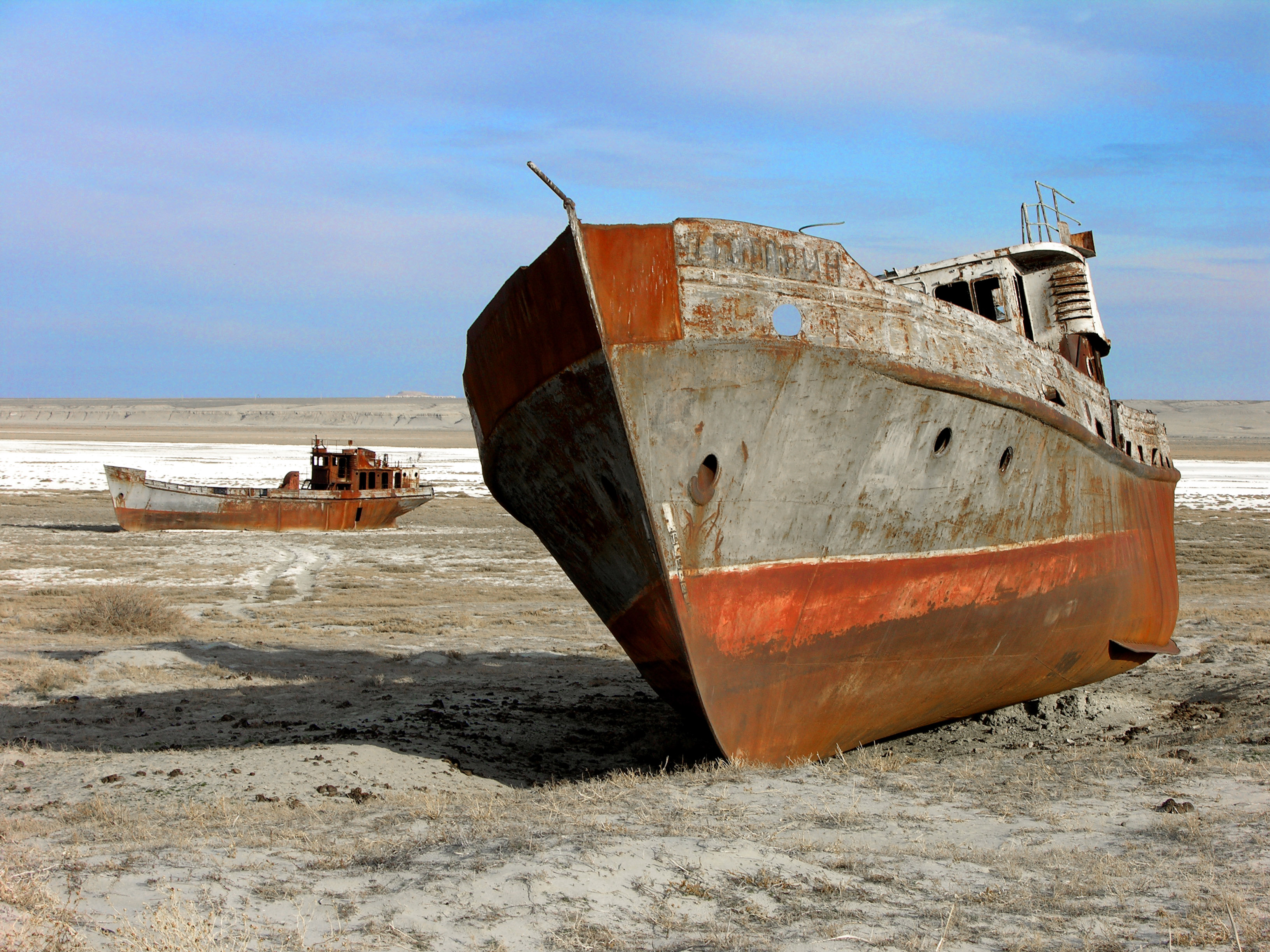 The Aral sea is drying up. Bay of Zhalanash, Ship Cemetery, Aralsk, Kazakhstan